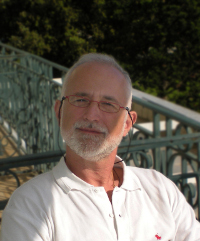 Photograph taken by me to Henry Borla. The copyright holder grants anyone the right to use, modify and reproduce this work for any purpose for any purpose, without any conditions, unless such use does not conflict with local laws